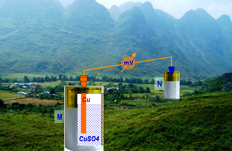 Self Potential SurveyTiếng Việt: Diễn giải Đo Điện trường thiên nhiên